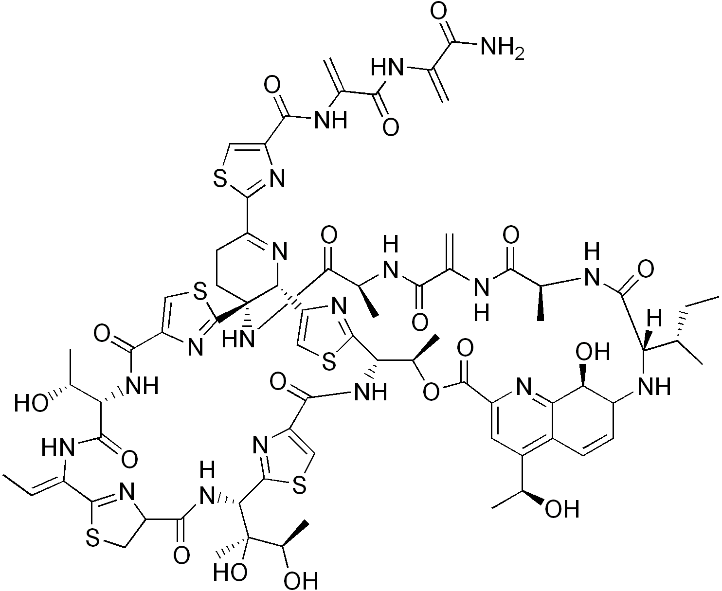 chemical structure of thiostrepton (Alaninamide, Bryamycin , Thiactin)